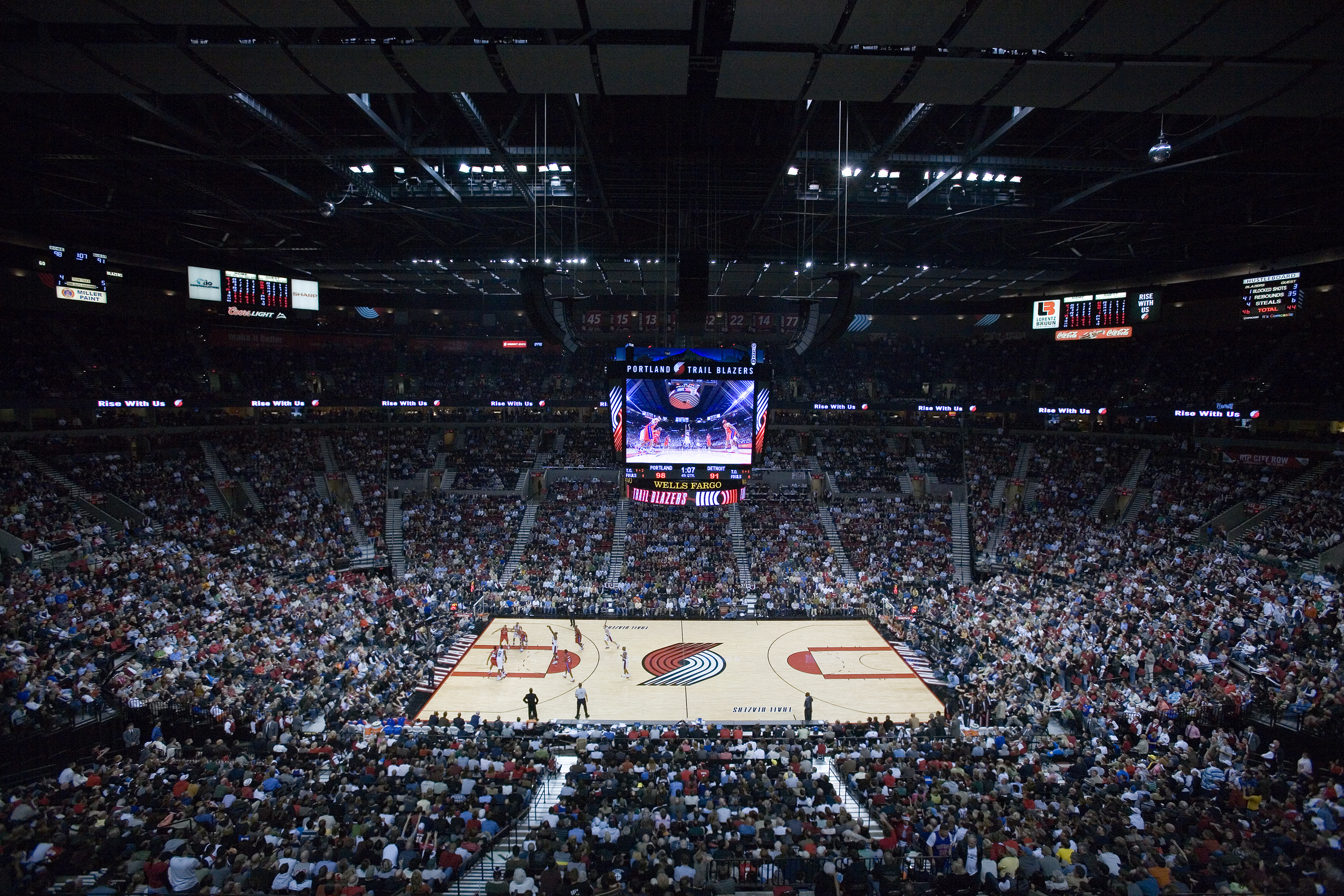 The Rose Garden Arena during a Blazers basketball game.